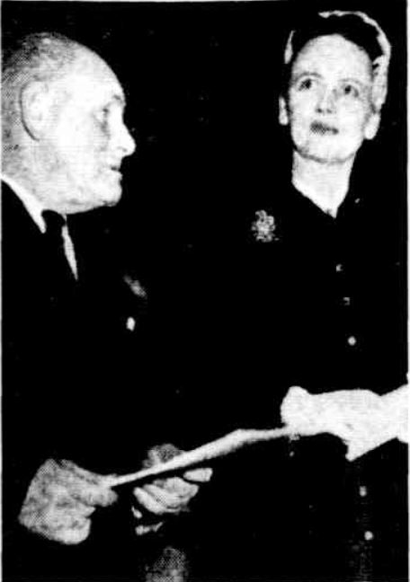 Director of the National Gallery Robert Campbell and Lady George at French Painting Today, Adelaide 1953. Text accompaning the picture: "The Director of the National Gallery (Mr. Robert Campbell) shows Lady George over the French art exhibition at the gallery yesterday afternoon, when the display was opened."